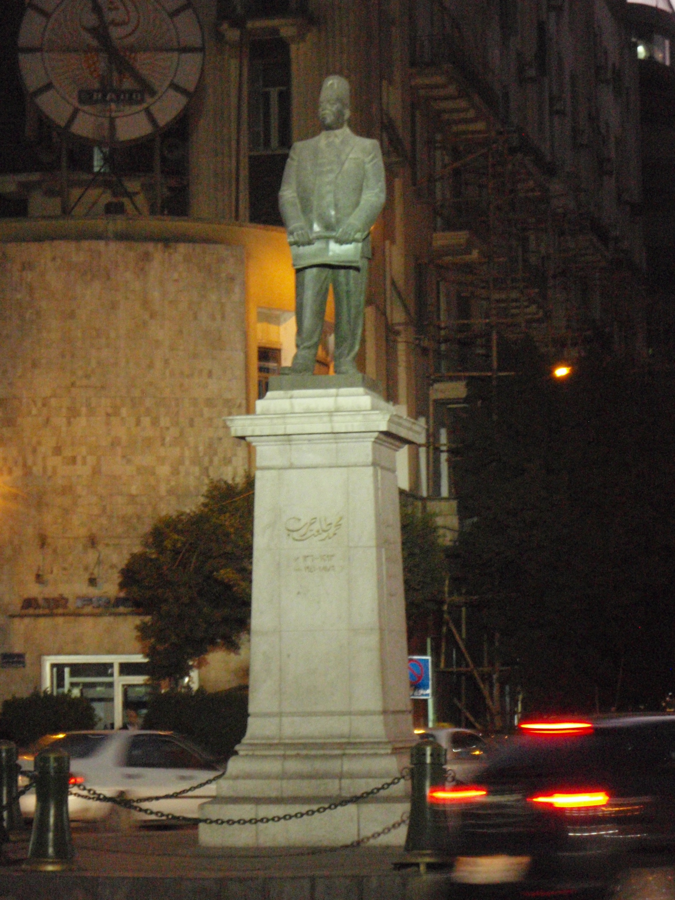 Statue of Talaat Harb, standing in midan Talaat Harb, Talaat Harb Street, downtown Cairo.